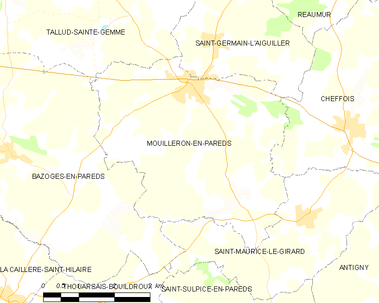 Map of French municipality Mouilleron-en-Pareds